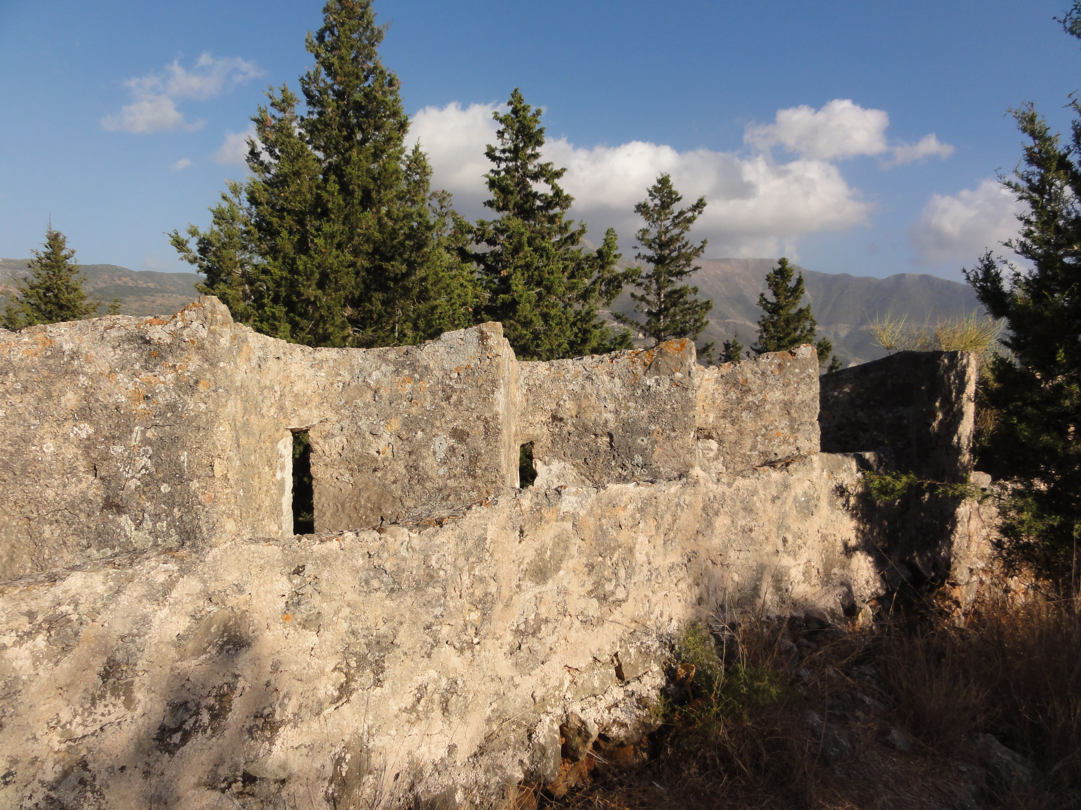 Photographs taken in Kefalonia.